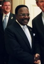 President George W. Bush welcomes President Omar Bongo Ondimba of Gabon to the Oval Office